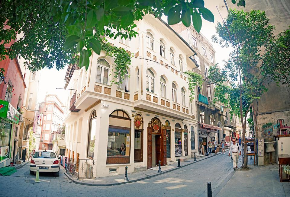 Tarihi Ağa Hamamı dış fotografları